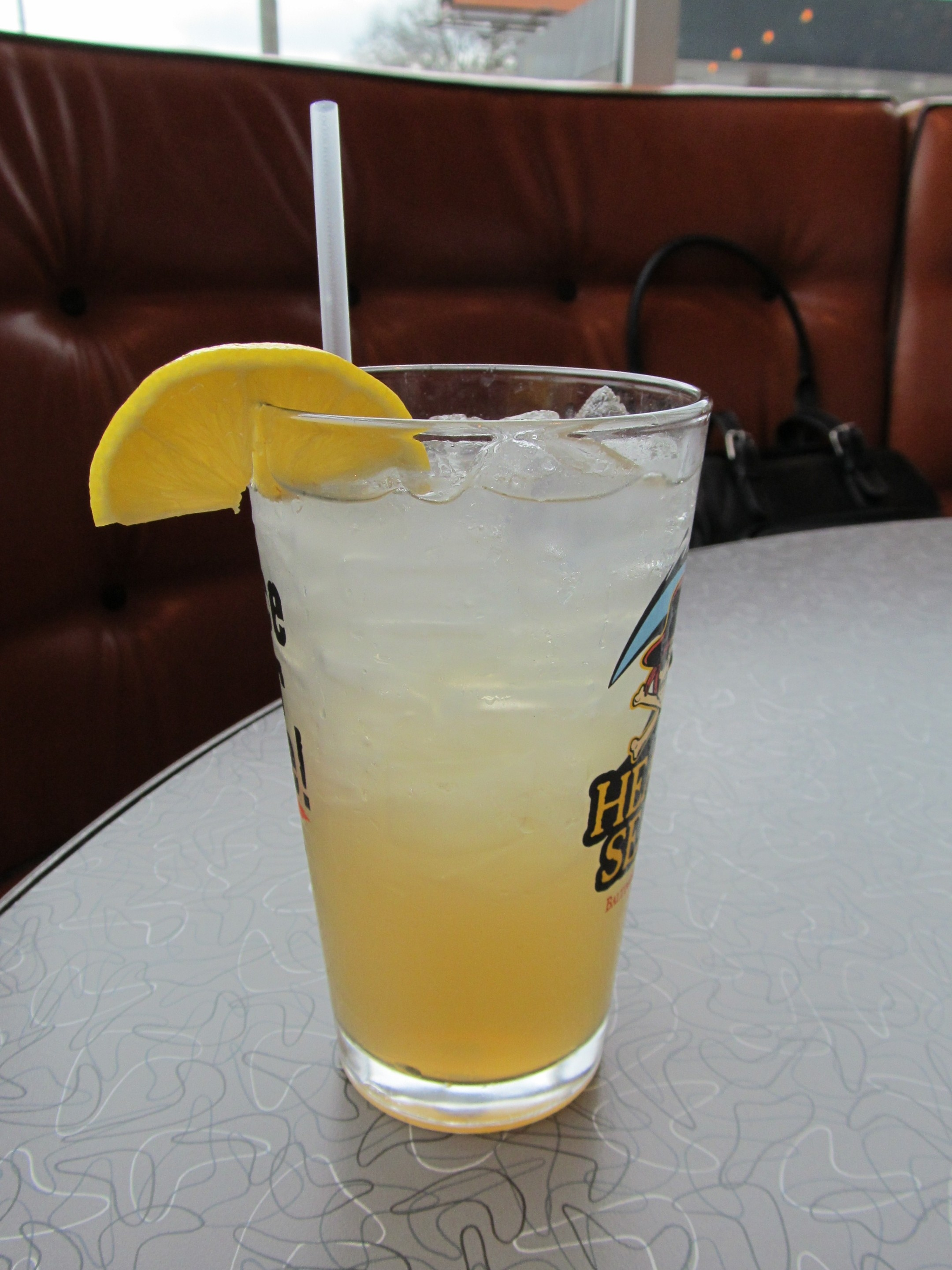 Lynchburg Lemonade, Grindhouse Killer Burgers, Atlanta Georgia From the wikipedia article "A Lynchburg Lemonade is a cocktail made with, among other ingredients, Jack Daniel's Tennessee whiskey"